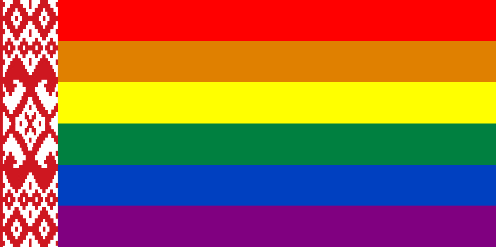 LGBT pride flag of Belarus